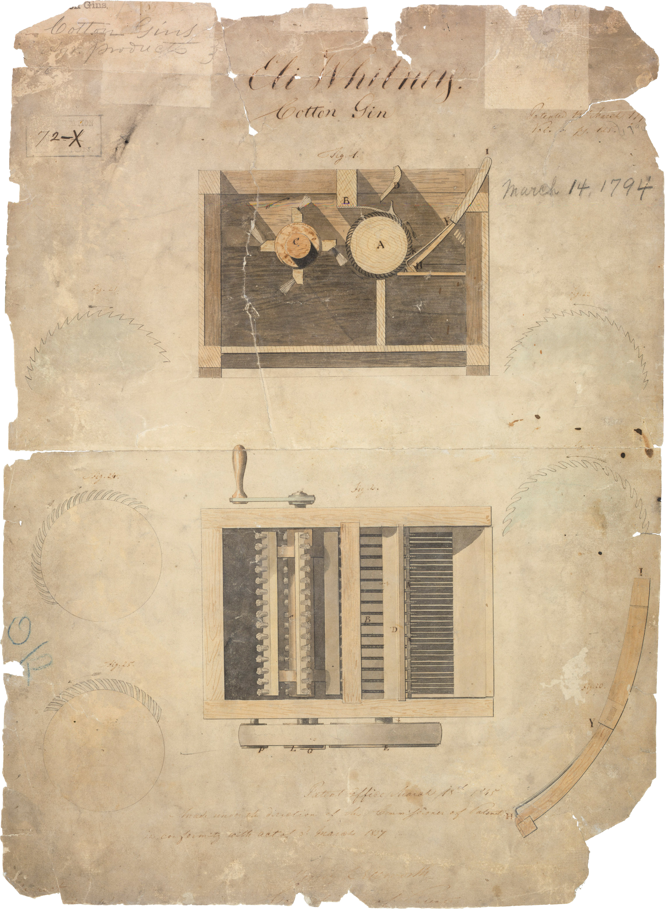 Eli Whitney's Patent for the Cotton gin, March 14, 1794; Records of the Patent and Trademark Office; Record Group 241, National Archives.